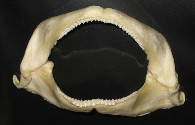 Ginglymostoma cirratum (Nurse shark) jaw.